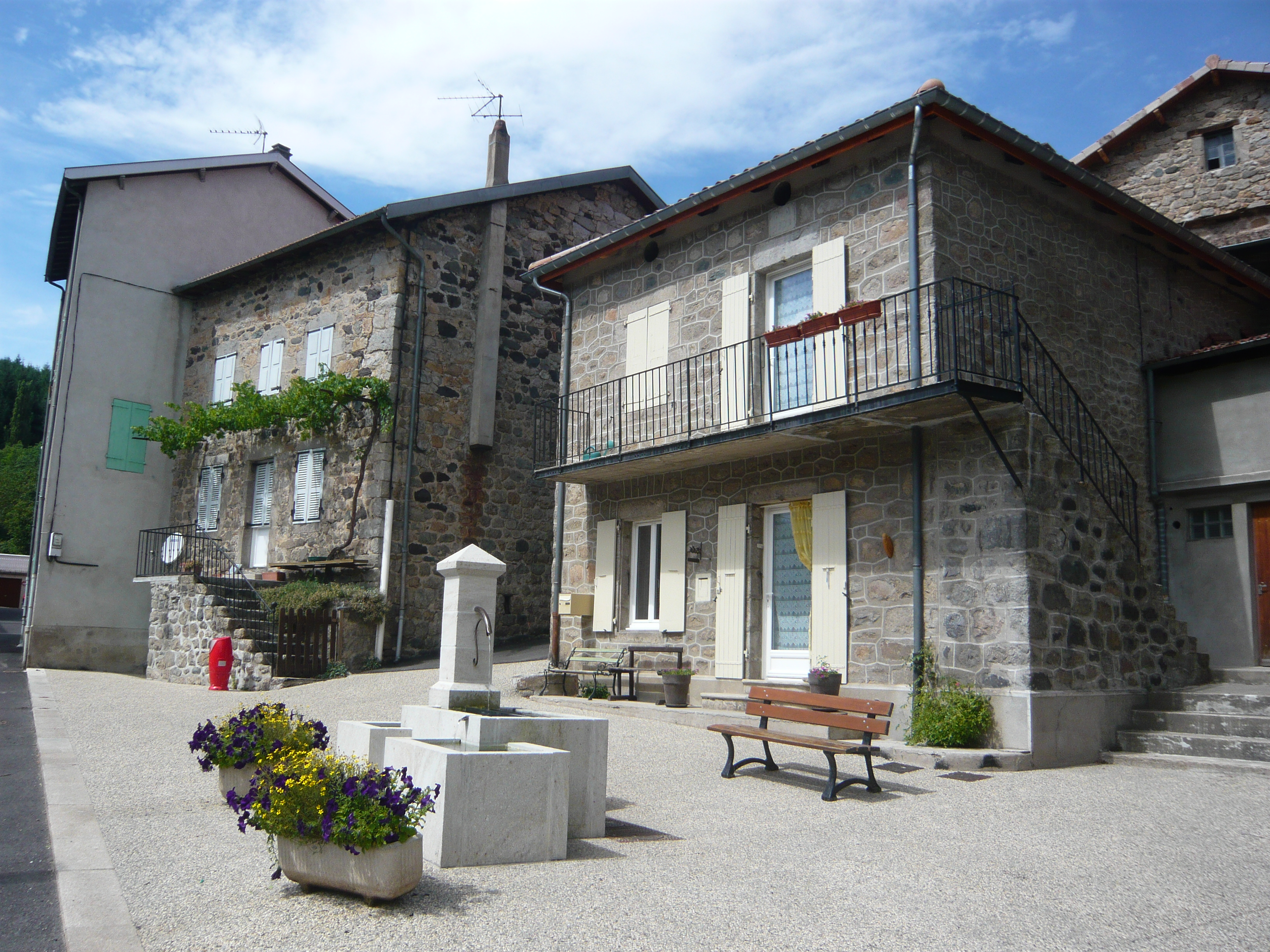 The village of Lachapelle-sous-Chanéac (Ardèche, France) - July 2010